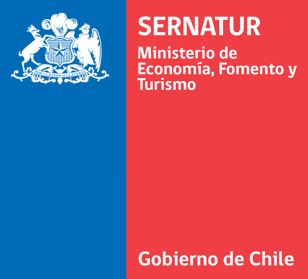 Institutional logo of the National Tourism Service.